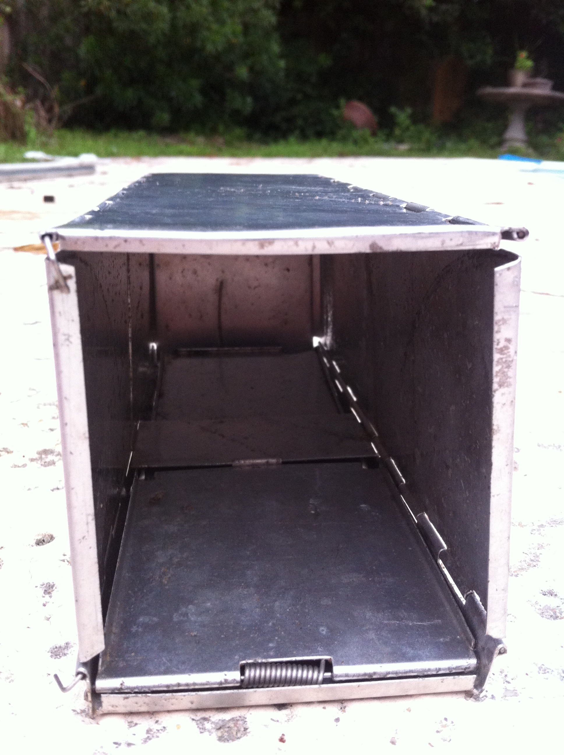 A frontal shot of a Sherman trap. Note the spring in the middle, bottom, of the (opened) front panel.